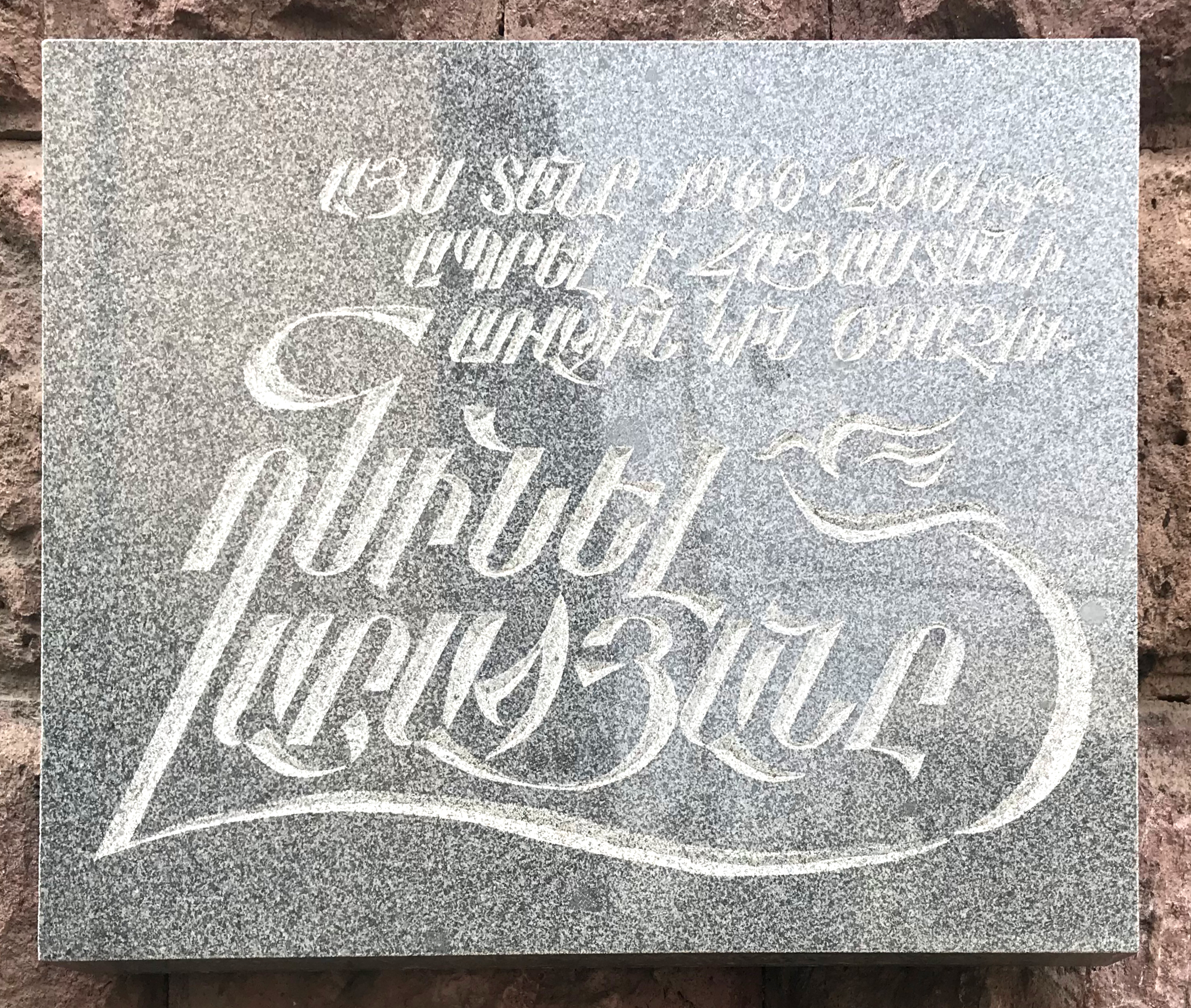 Plaque to Ninel Gharajian in Yerevan